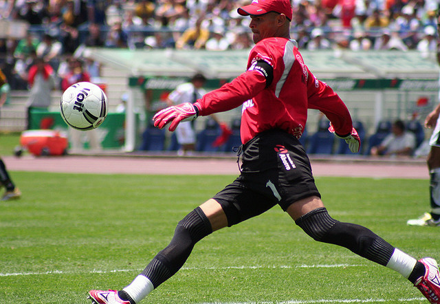 Miguel Calero, colombian soccer goalkeeper.